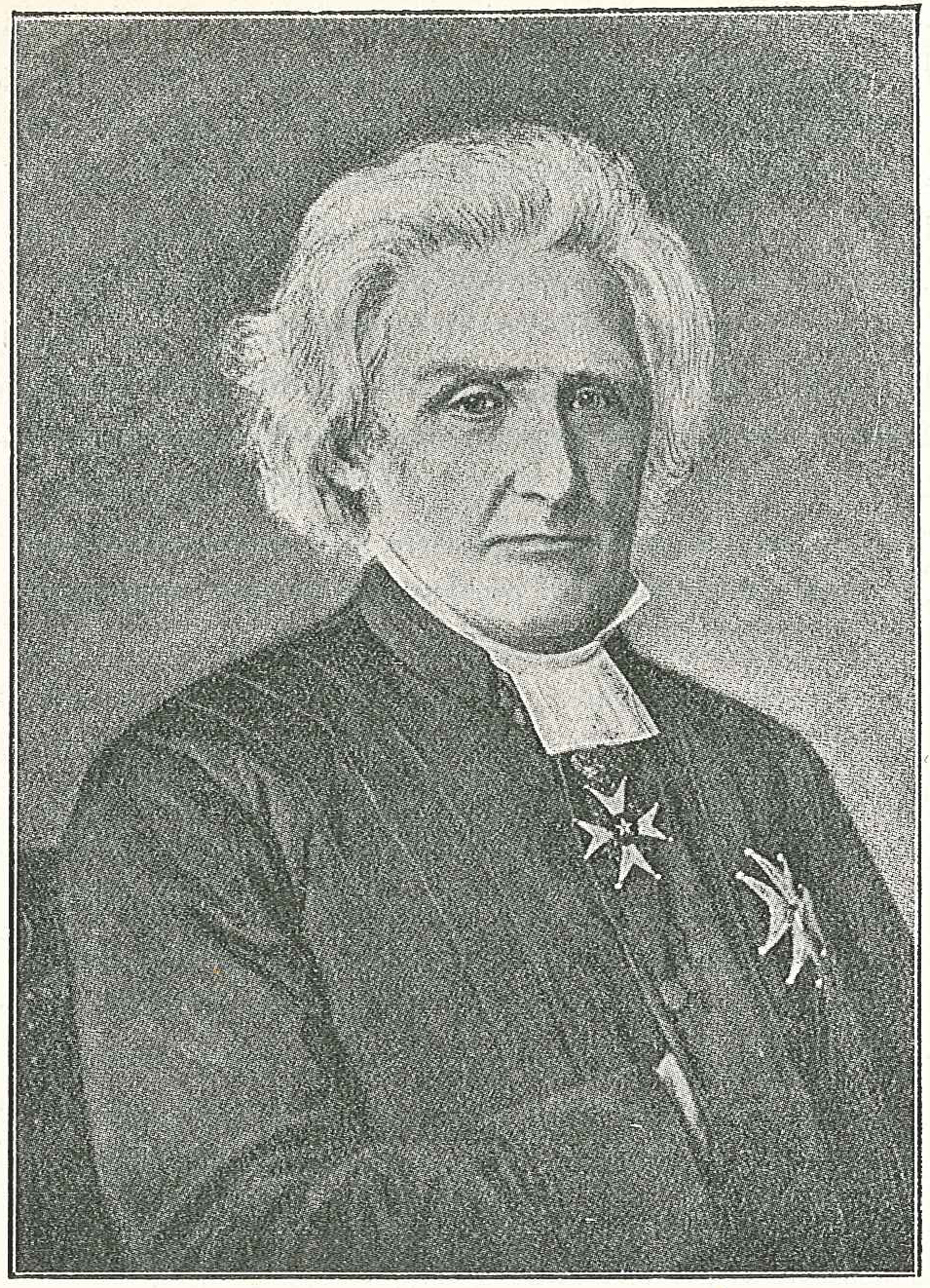 Peter Wieselgren (1800-1877), Swedish clergyman and leading person within the temperance movement.